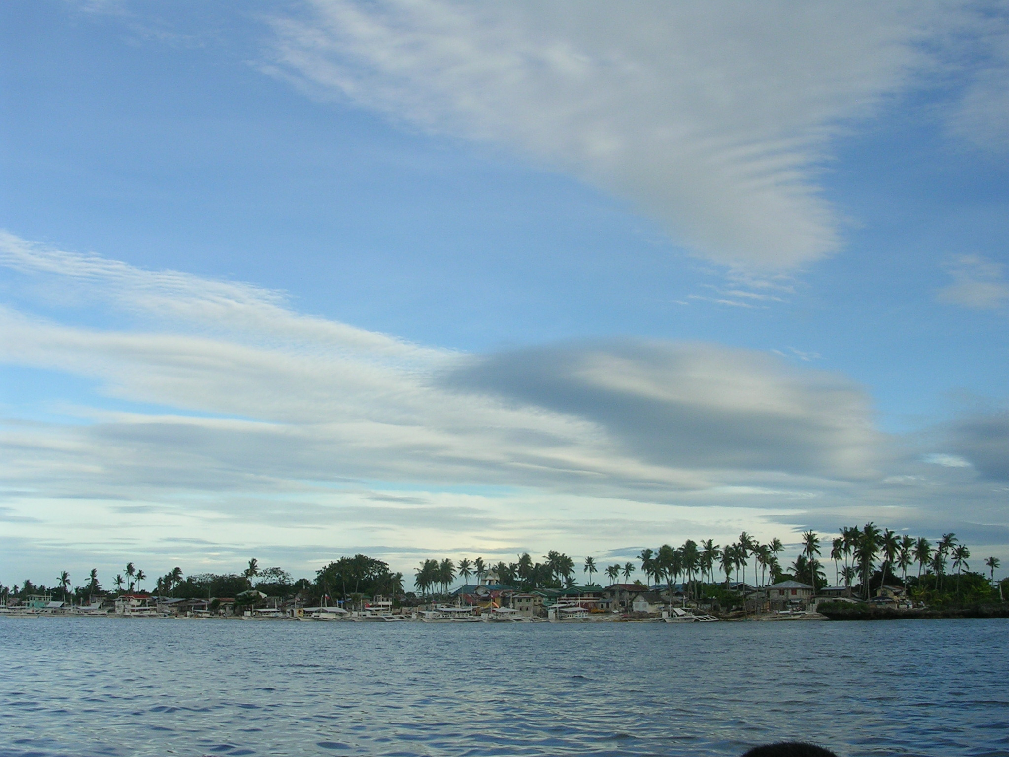 A photo of Olango Island near Cebu City, the Philippines